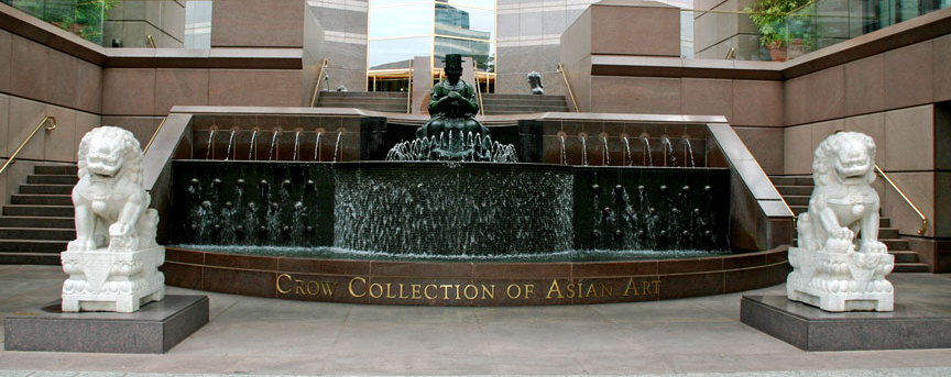 widescreenshotforwikifrontpage